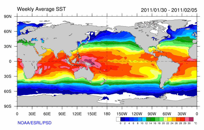 This image shows the global weekly average SSTs